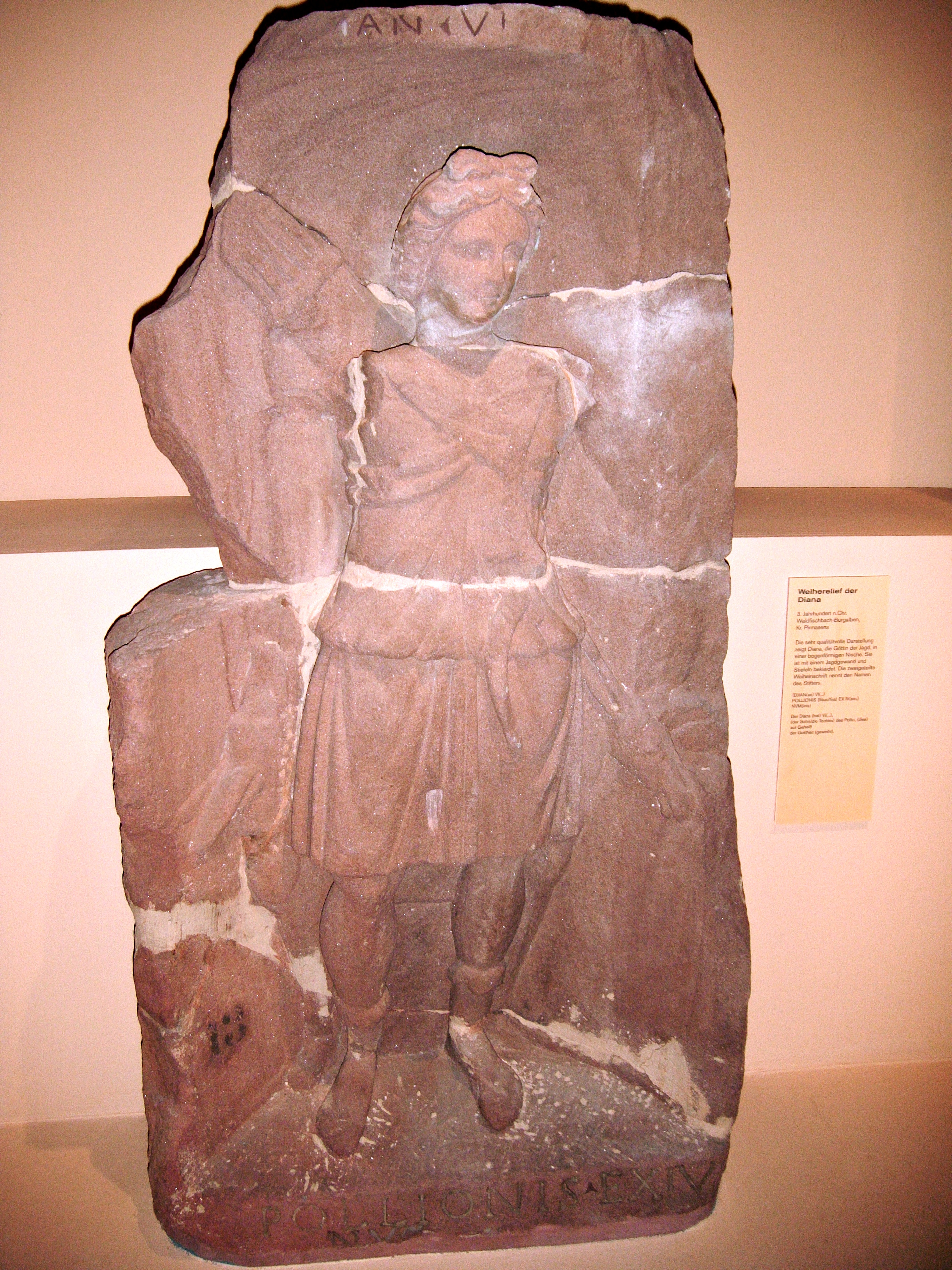 Dianarelief aus Waldfischbach, Historisches Museum der Pfalz, Speyer (um 200 n. Chr.)